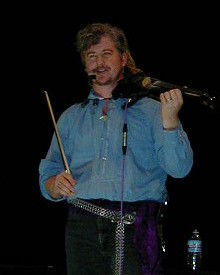 Alexander James Adams in concert, 21 March 2008, at Norwescon 31.